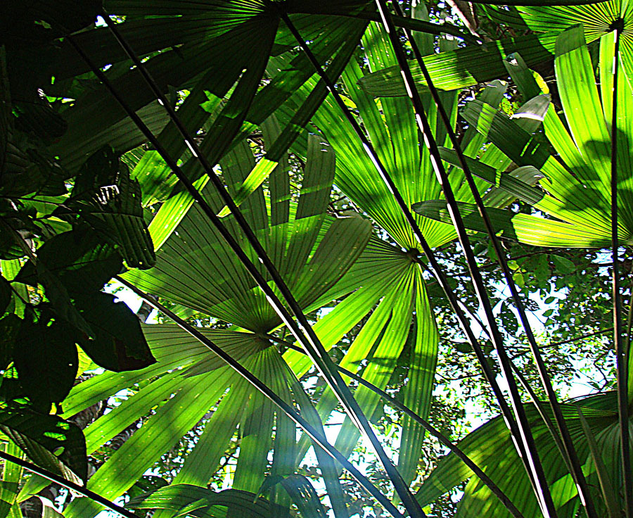 One of the fan palms referred to as Palma de Escoba, used to make brooms. Native to Panama, where it is known as Nupa and to Colombia where it is called Barbarasco. Photo from the San Blas Mountains, northeastern Panama. In context at